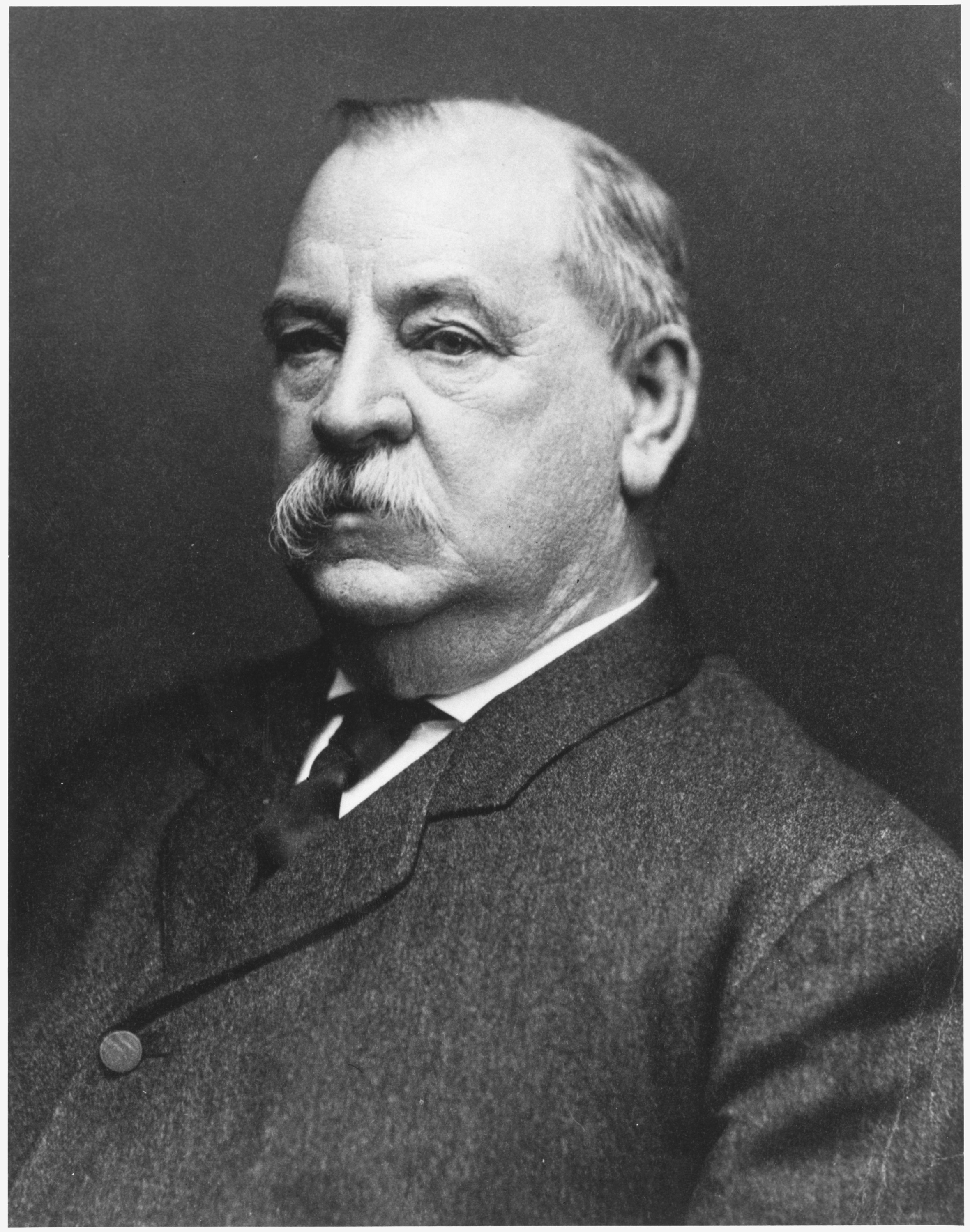 General notes: Use Presidents List Number 5 when ordering a reproduction or requesting information about this image.